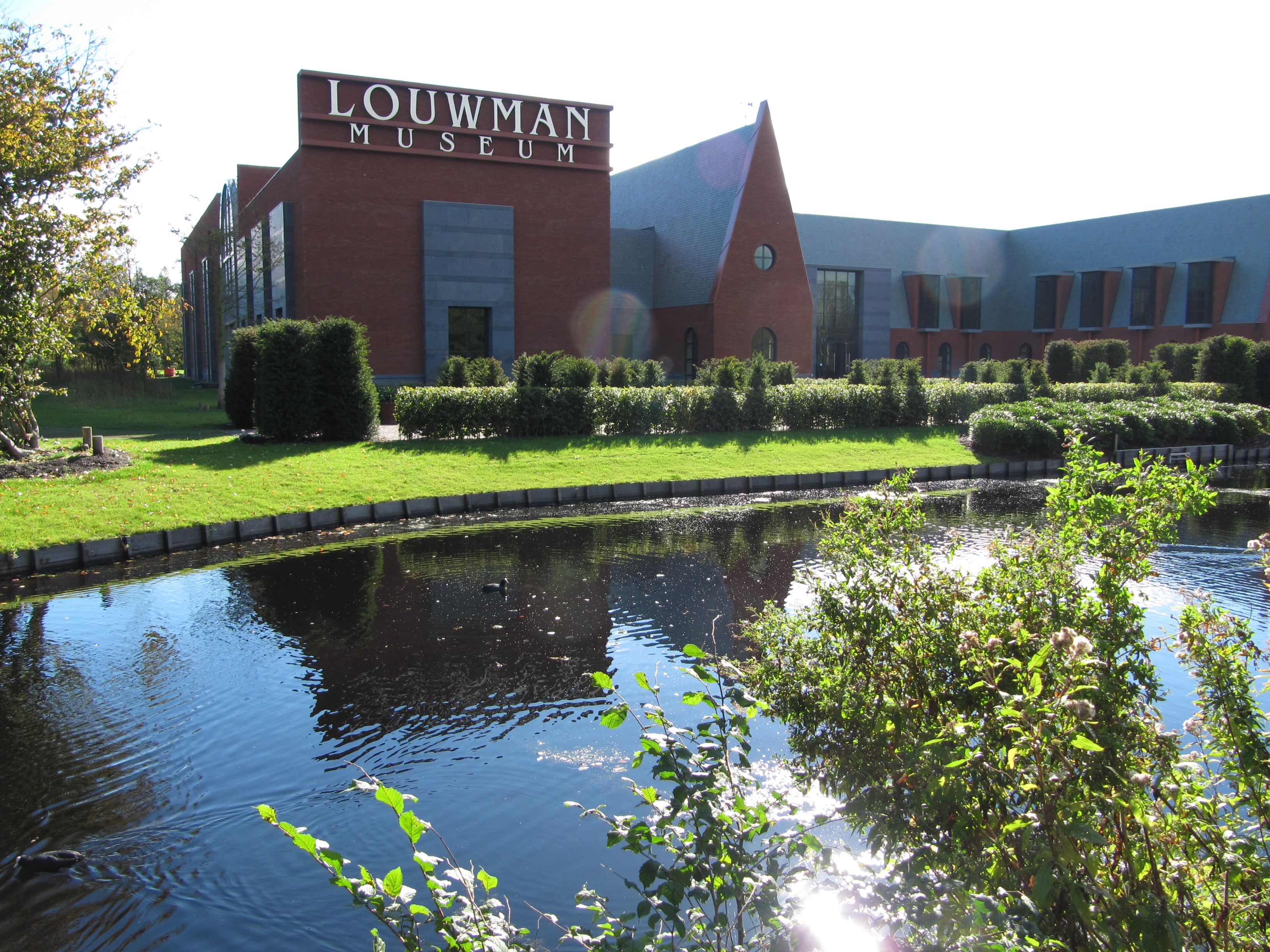 Louwman Museum (2010)